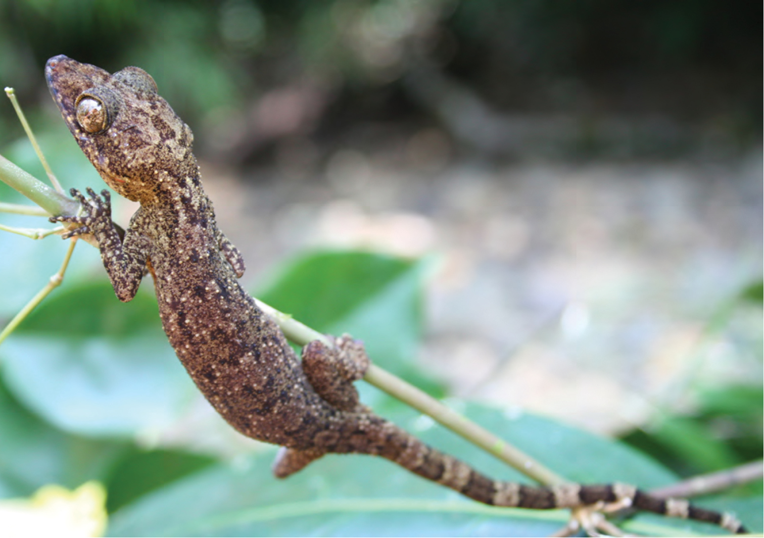 Cyrtodactylus philippinicus from Palanan. Photo: MVW.